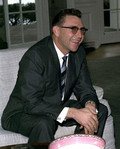 President John F. Kennedy Meets with Governor of Nevada Grant Sawyer